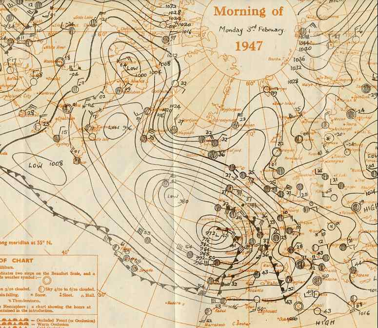 Pressure chart of the Northern Hemisphere on 3rd Feb 1947